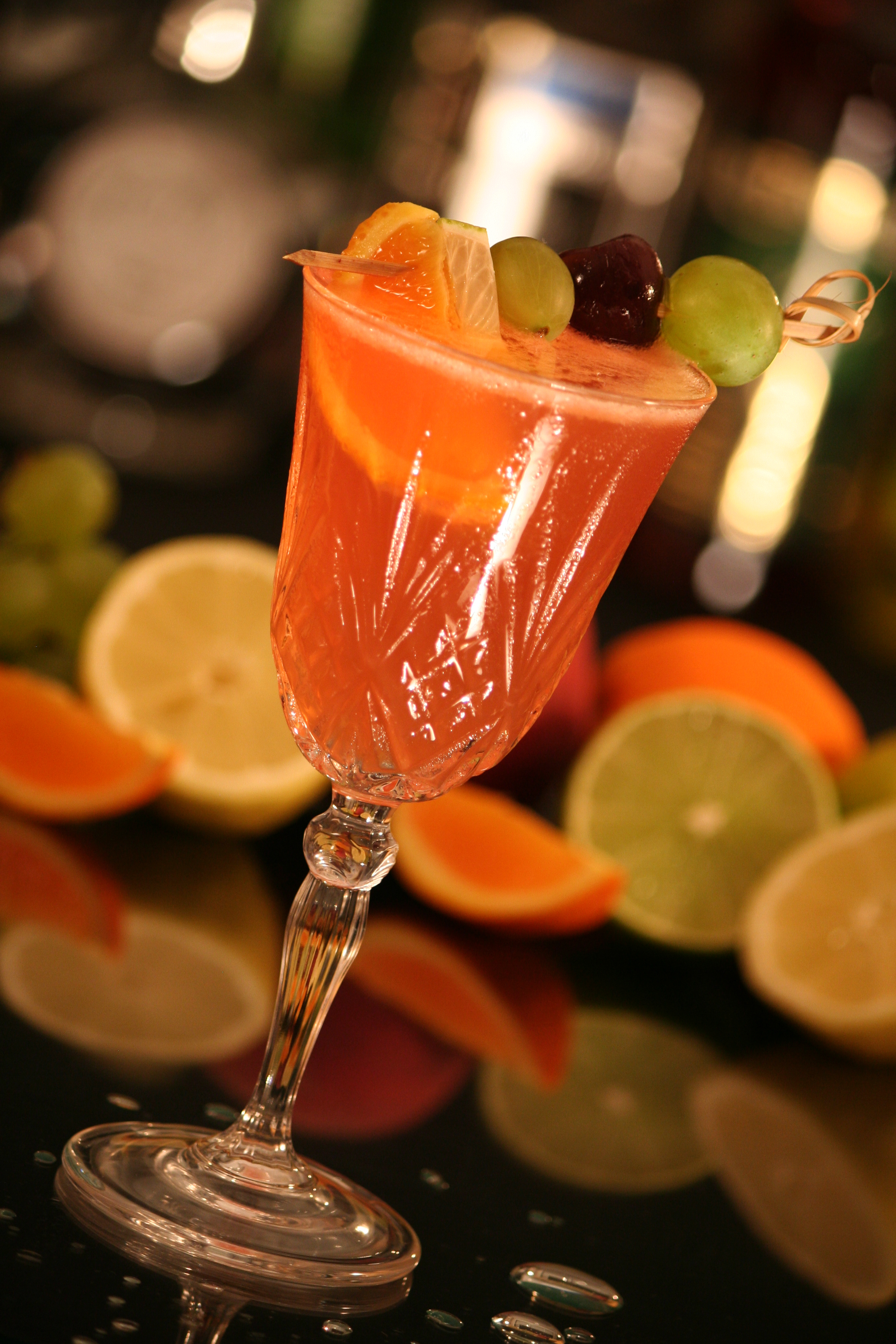 A summerly cocktail made with rum from U.S. Virgin Islands. Famous from Ted Haigh's book "Vintage Spirits and Forgotten Cocktails".